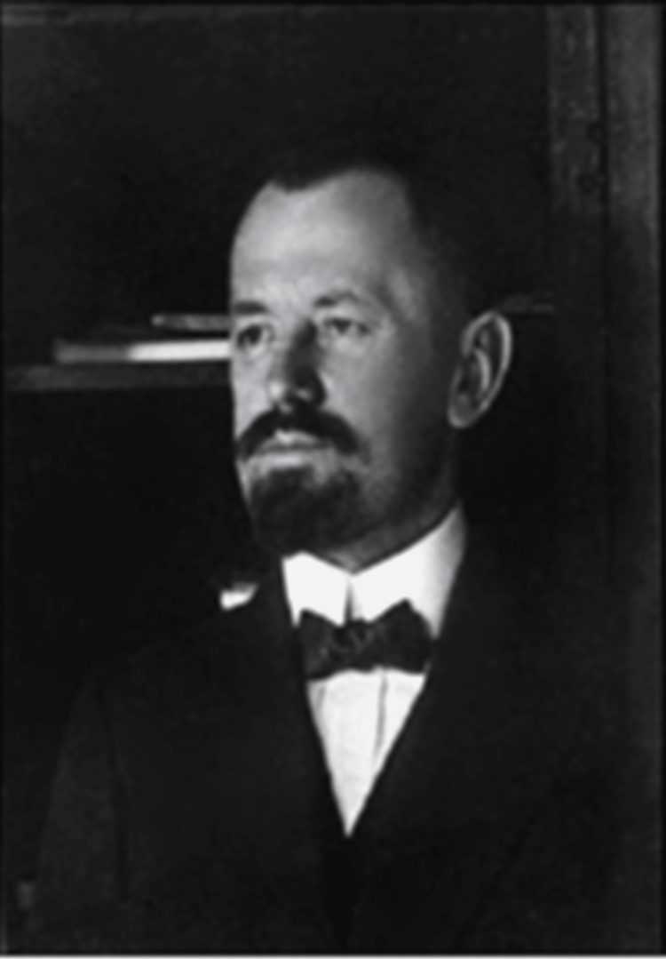 Ludwig Seitz (1872-1961), German gynaecologist